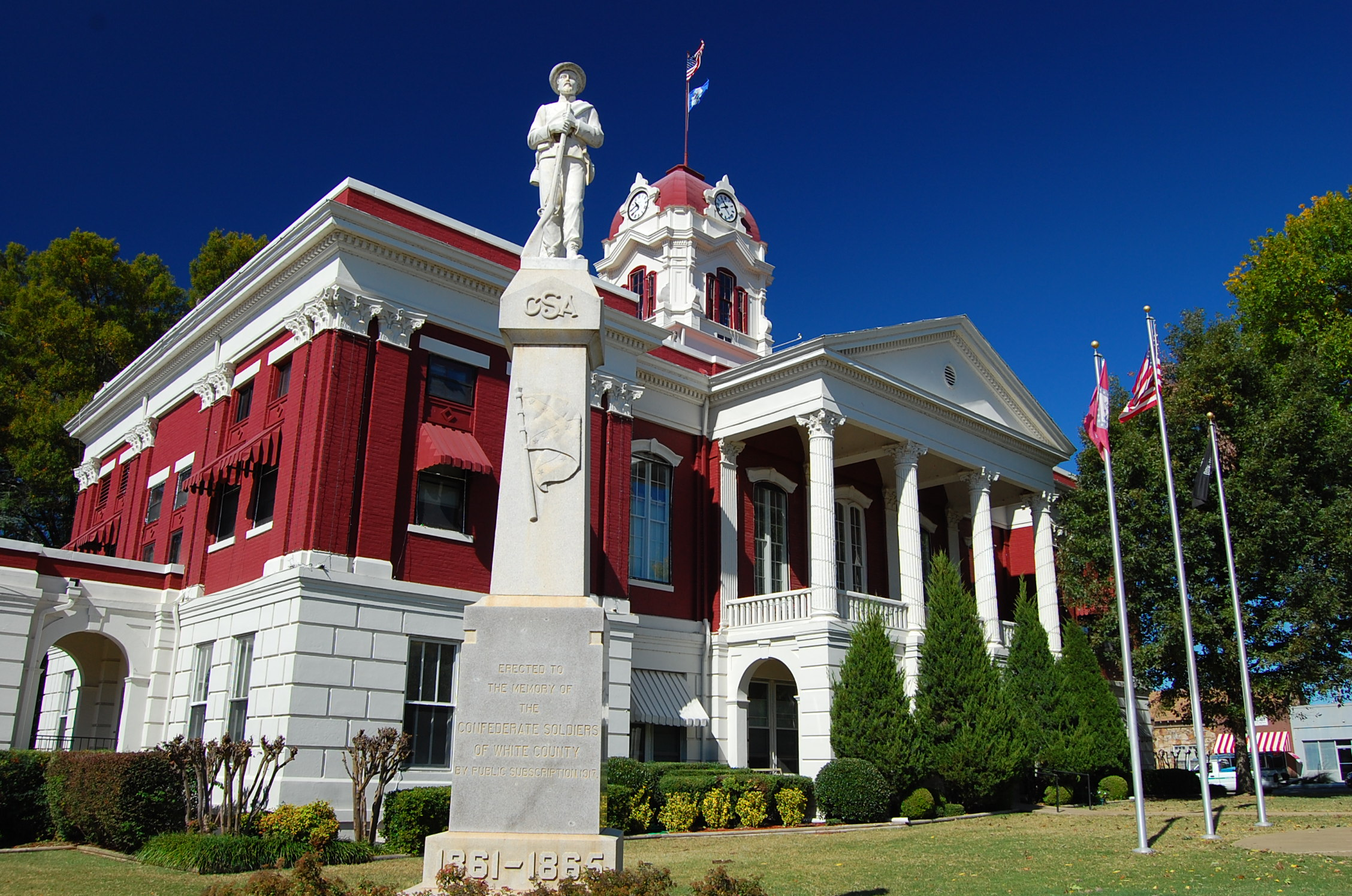 Picture of County Courthouse in White County, Arkansas